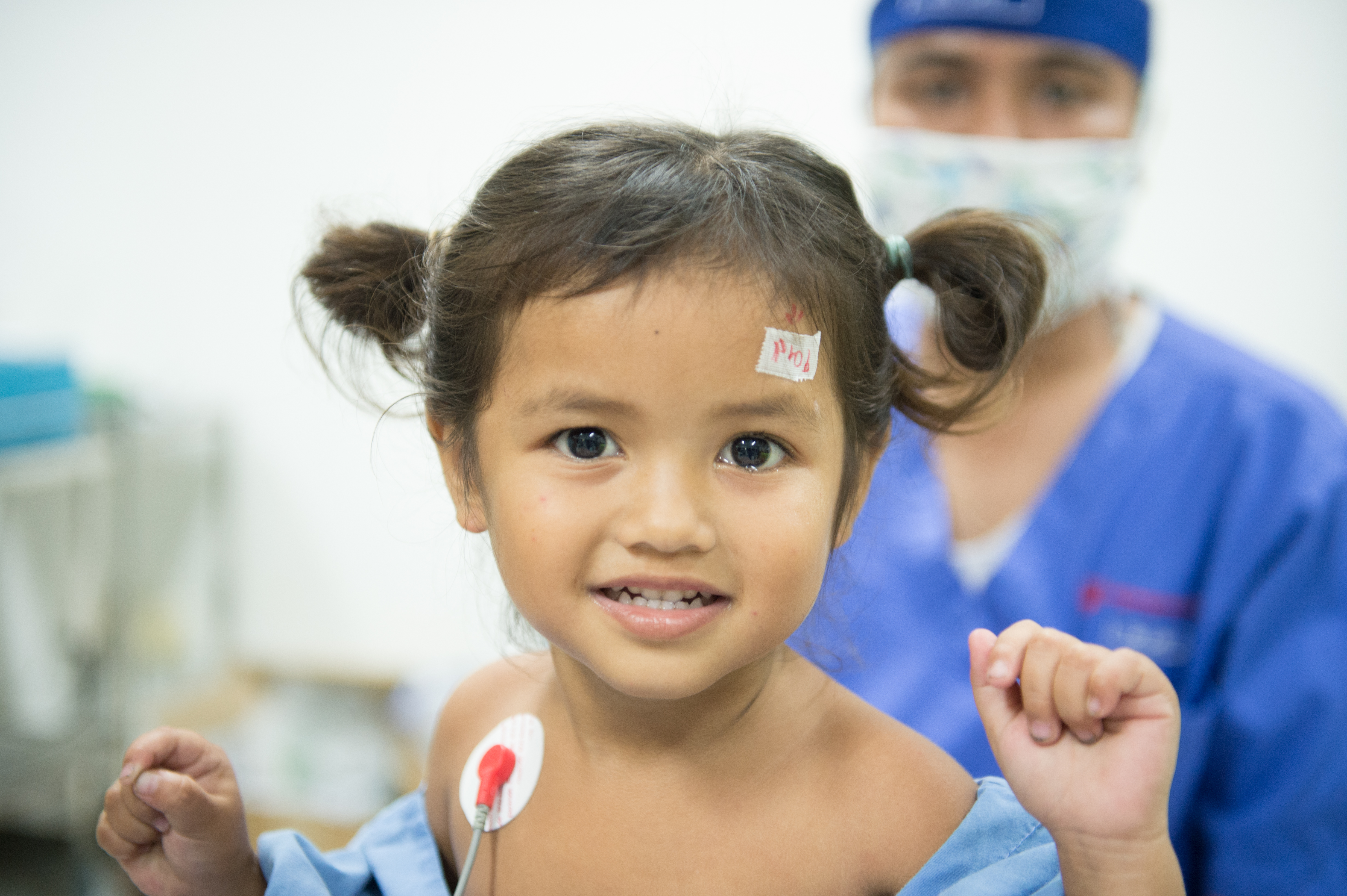 This is a photo taken of a patient during a Surgical Eye expedition to Phnom Penh, Cambodia.